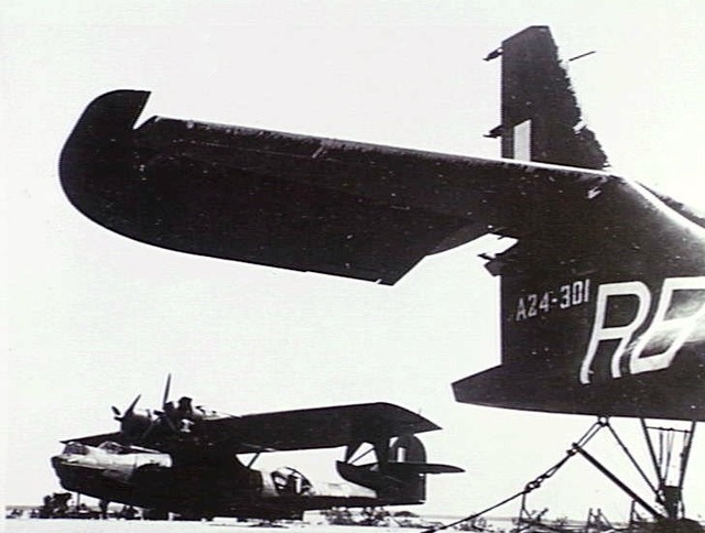 Sourced from: Copyright: The AWM record for this photo states that the copyright status is 'clear'. The photo was taken during or shortly after World War II. AWM Caption: A NO. 42 SQUADRON CATALINA, RK-P, FRAMED BY THE EMPENNAGE OF NO.20 SQUADRON CATALINA A24-301.